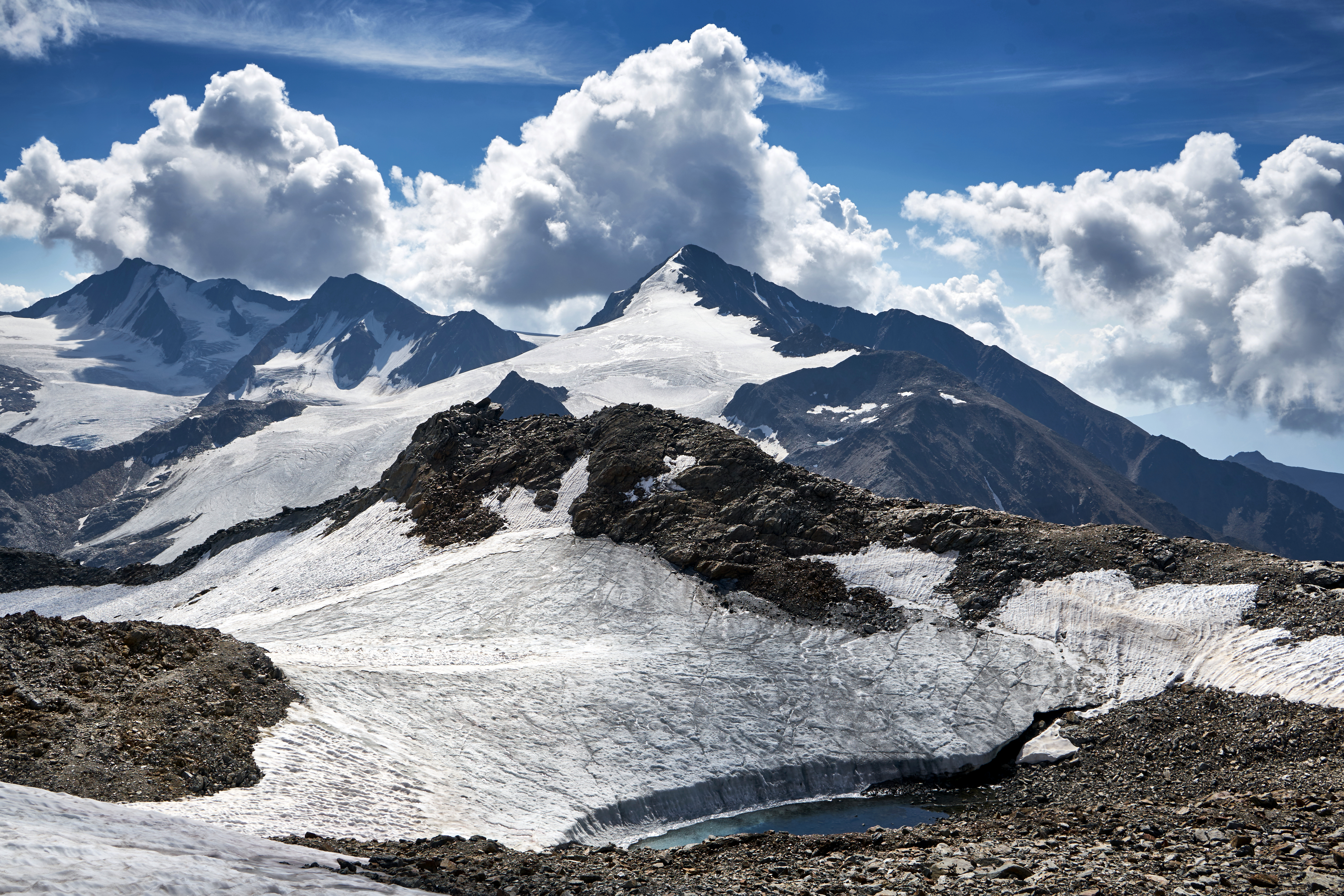 Similaun and Schnalskamm, Ötztal Alps, Austria and Italy. This file shows the Nature Park with the ID 7122 in Austria.